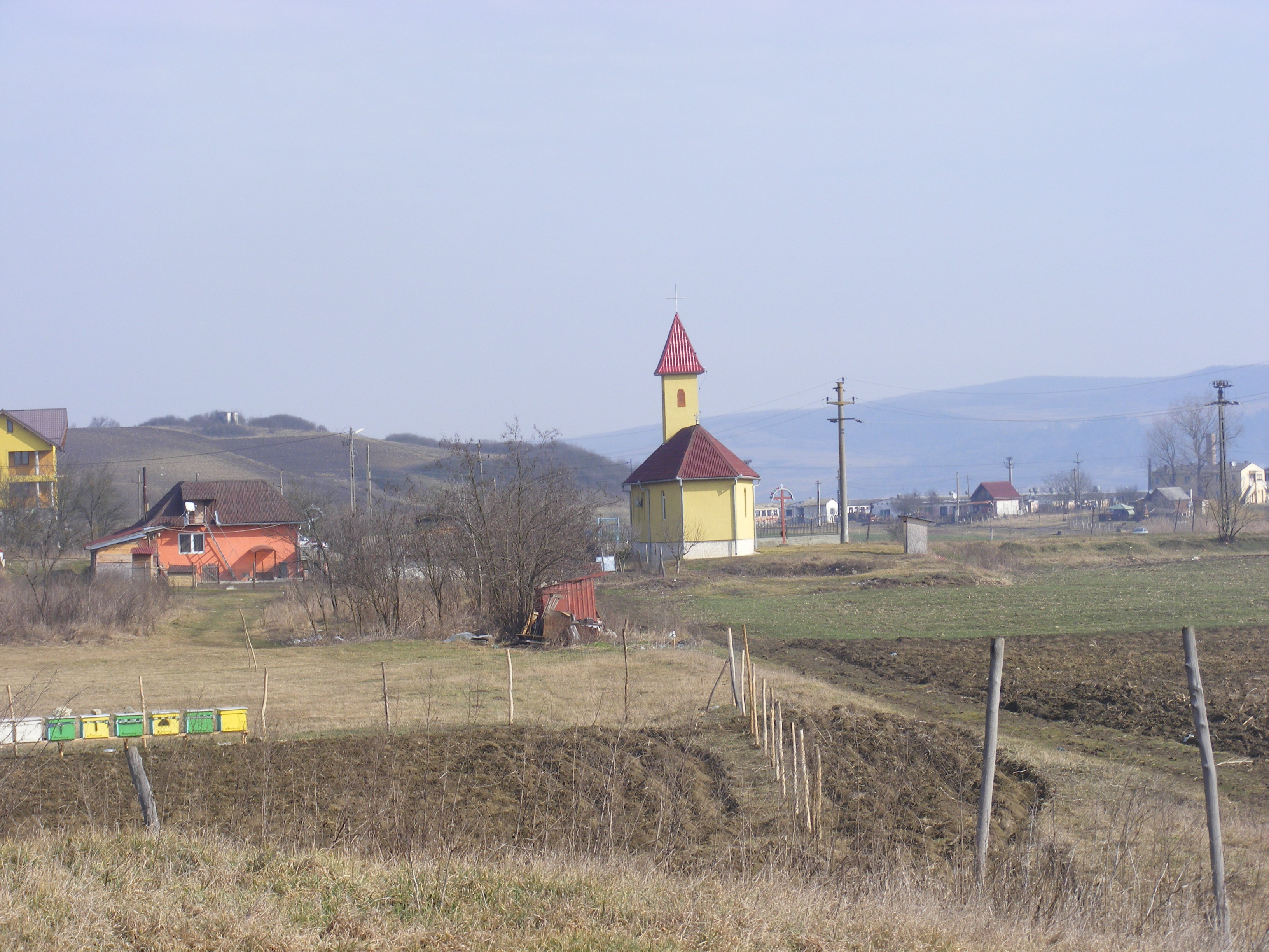 Ortodoxian church in Bunești, Cluj County.